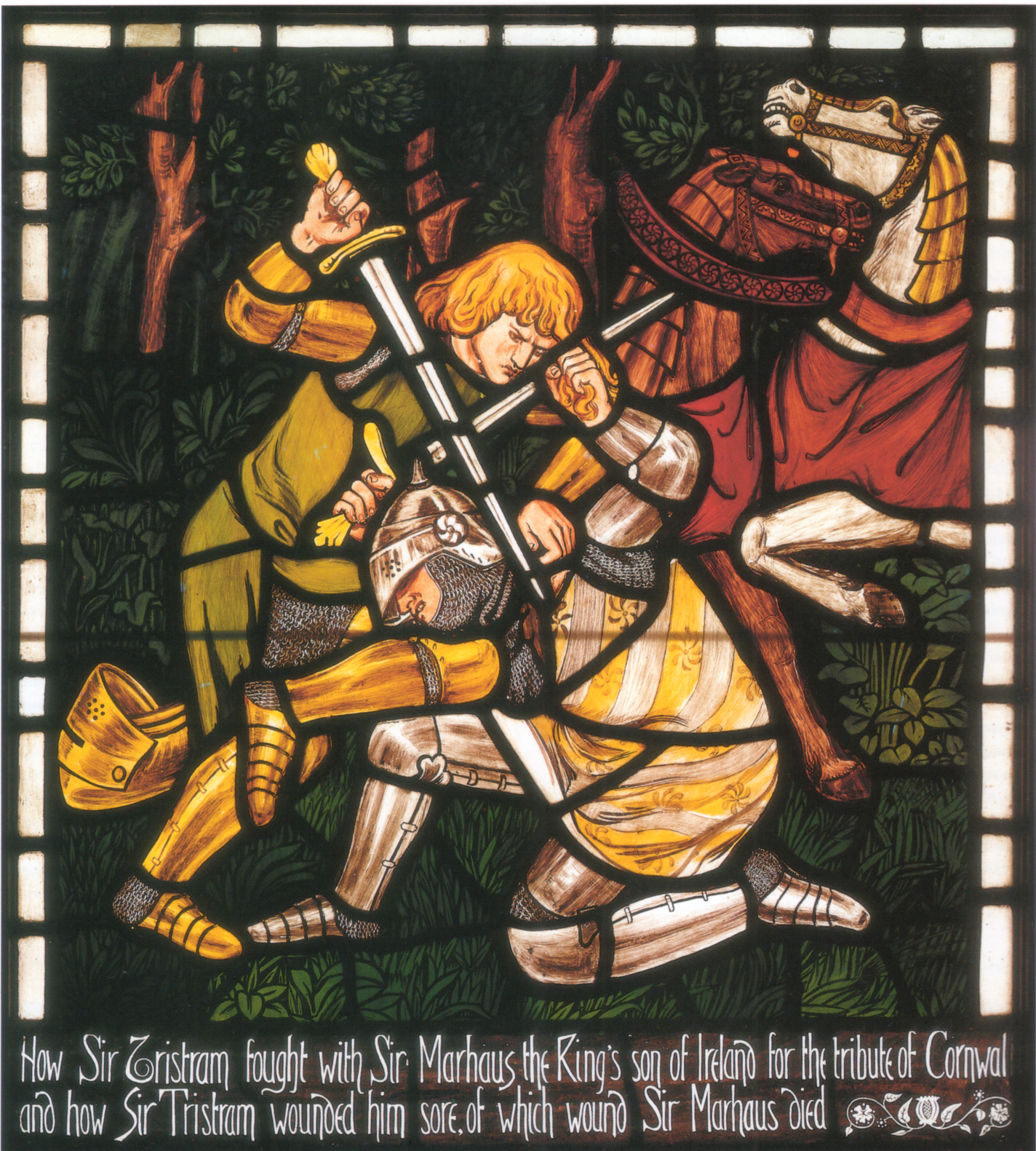 The Fight between Tristram and Sir Marhaus, one of a set of 13 stained glass panels commissioned from Morris, Marshall, Faulkner & Co. by Walter Dunlop for Harden Grange near Bingley Yorkshire. This is one of two panels designed by Rossetti. Other panels in the series were designed by Arthur Hughes, Valentine Prinsep, Sir Edward Burne-Jones, Ford Madox Brown, and William Morris. Bradford Art Gallery.